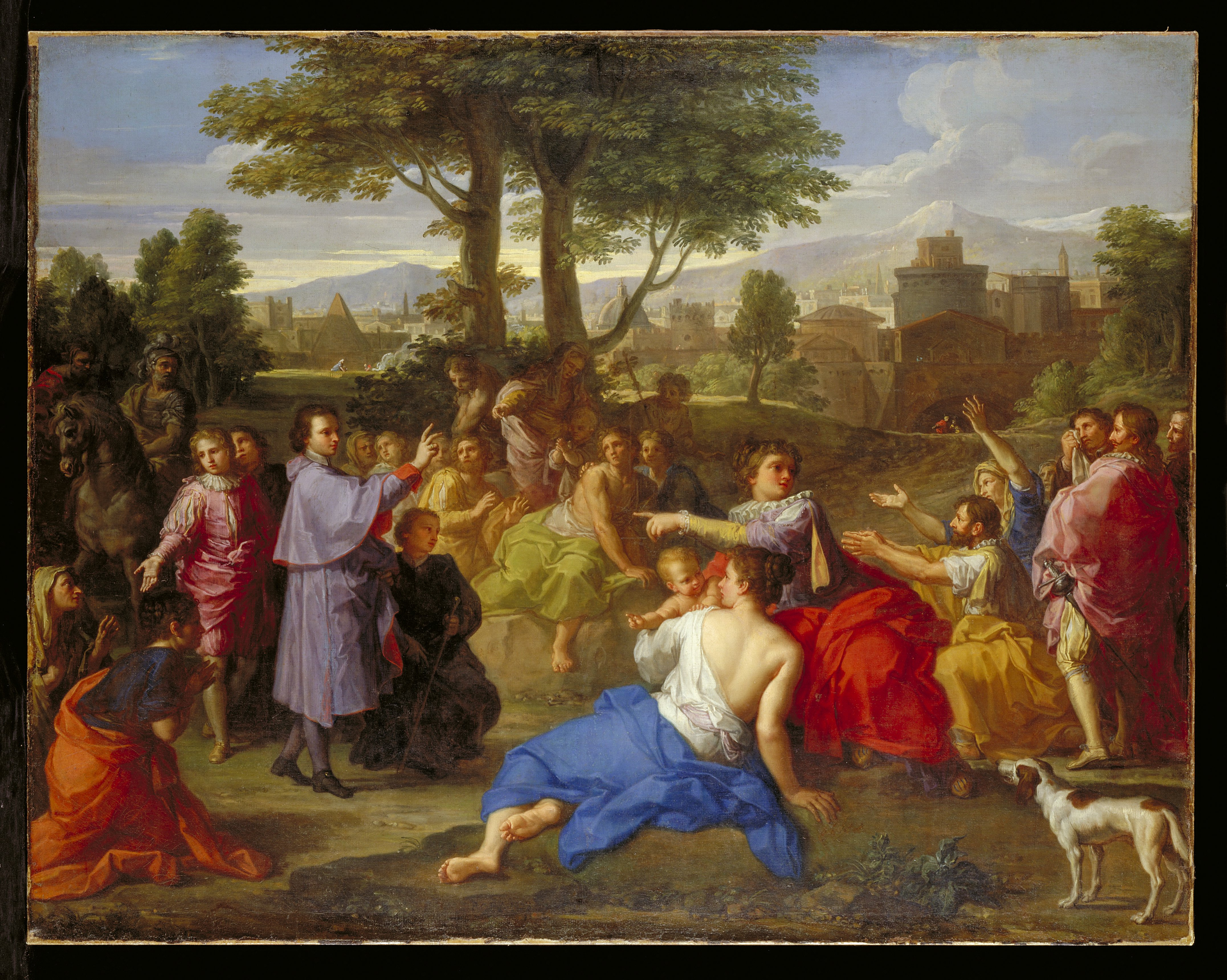 1706 - Cardinal Zondadari returning from Spain